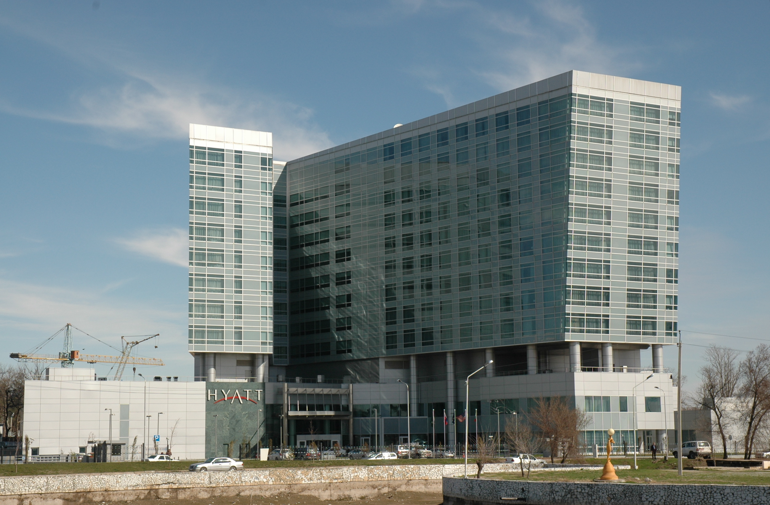 The Hotel Hyatt Regency (Хаятт Ридженси Душанбе). . - Prospekt Ismoili Somoni 26/1, Dushanbe, Tajikistan